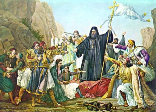 The Bishop of Old Patras Germanos Blesses the Flag of Revolution